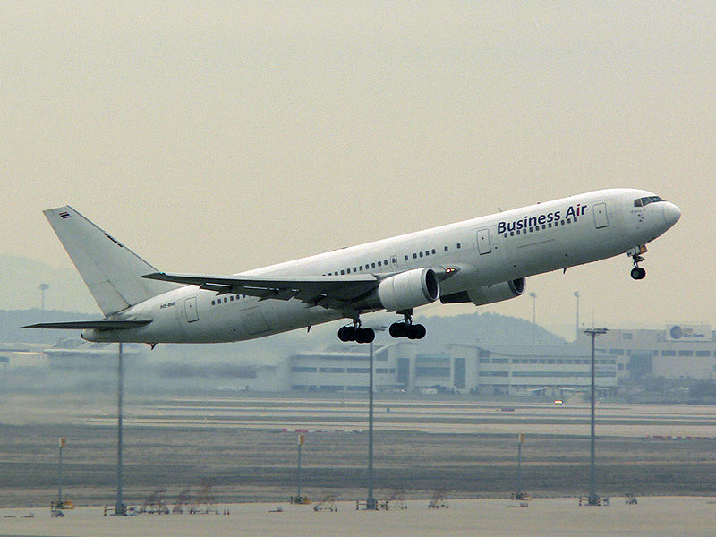 Business Air(8B/BCC) Boeing 767-300ER